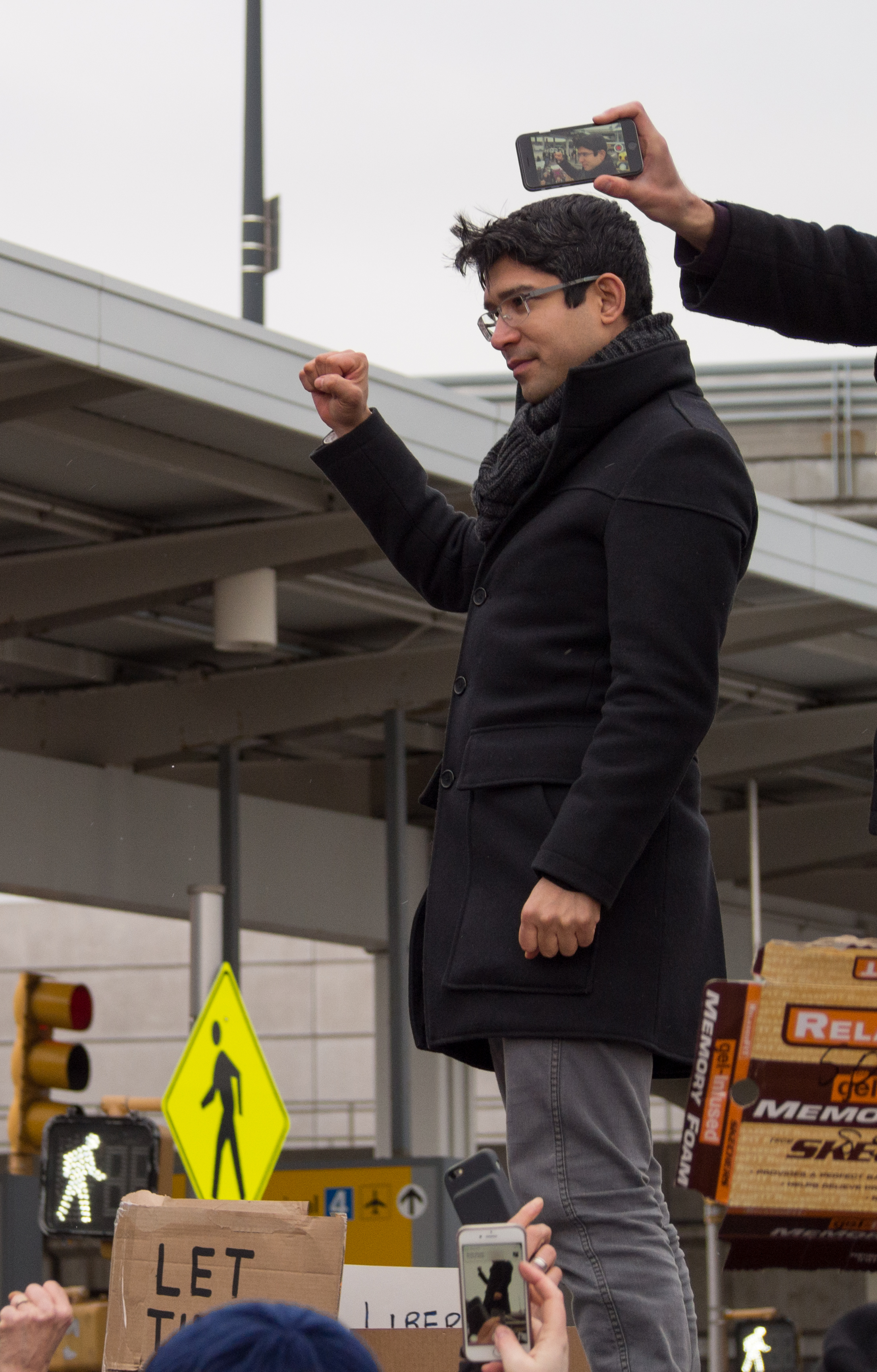 Protest at John F. Kennedy International Airport (JFK), Terminal 4, in New York City, against Donald Trump's executive order signed in January 2017 banning citizens of seven countries from traveling to the United States (the executive order is also known as "Protecting the Nation from Foreign Terrorist Entry into the United States"). New York City Council member, Carlos Menchaca talks to the crowd.